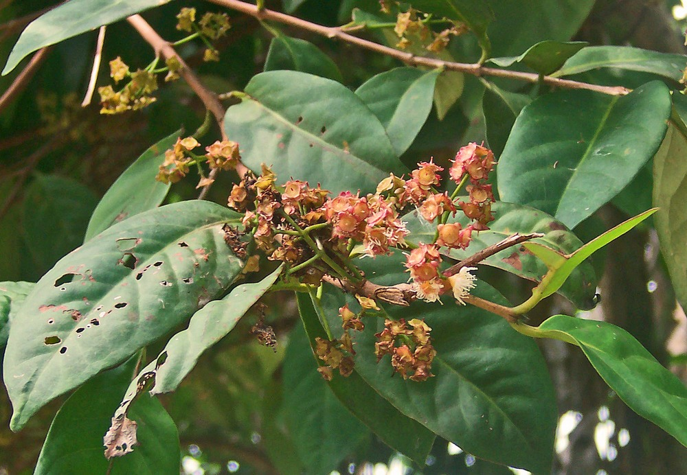 Syzygium polyanthum, leaves and inflorescence. From Bogor, West Java, Indonesia